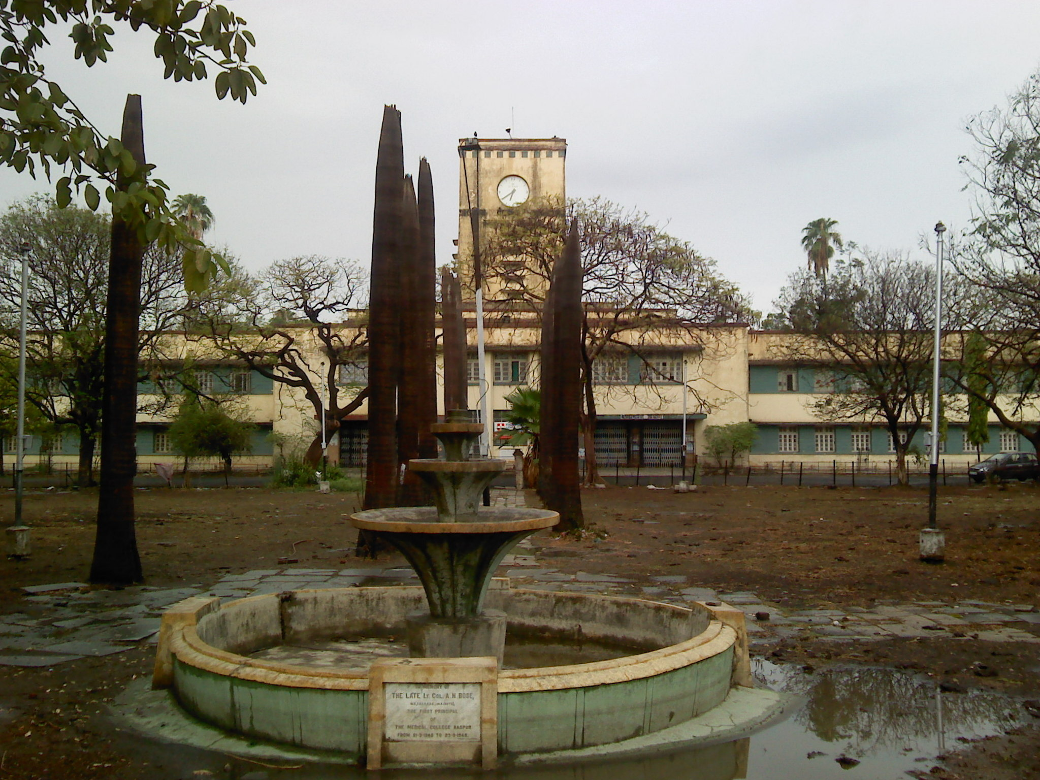 Building of Government Medical College, Nagpur, outpatient department side.